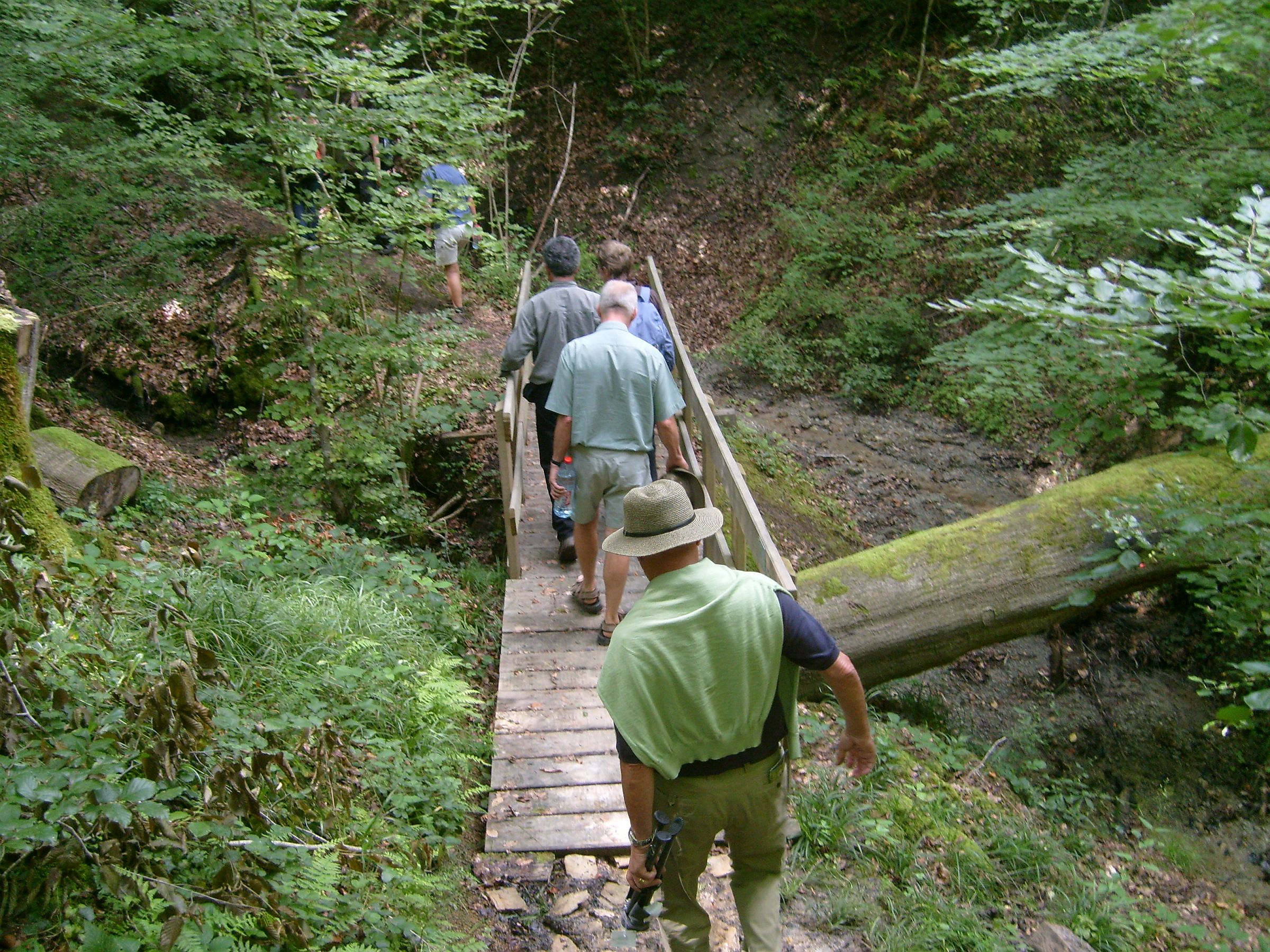 Nature conservation site: natural forest Grouf near Schengen, Luxembourg. Field trip by the Luxembourg Naturalist Society (